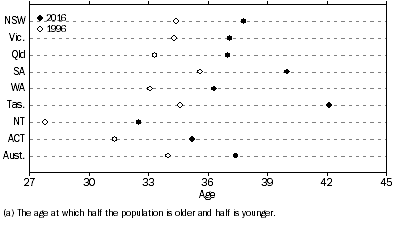 This file represents the change in median age of Australians between the years 1996 and 2016.